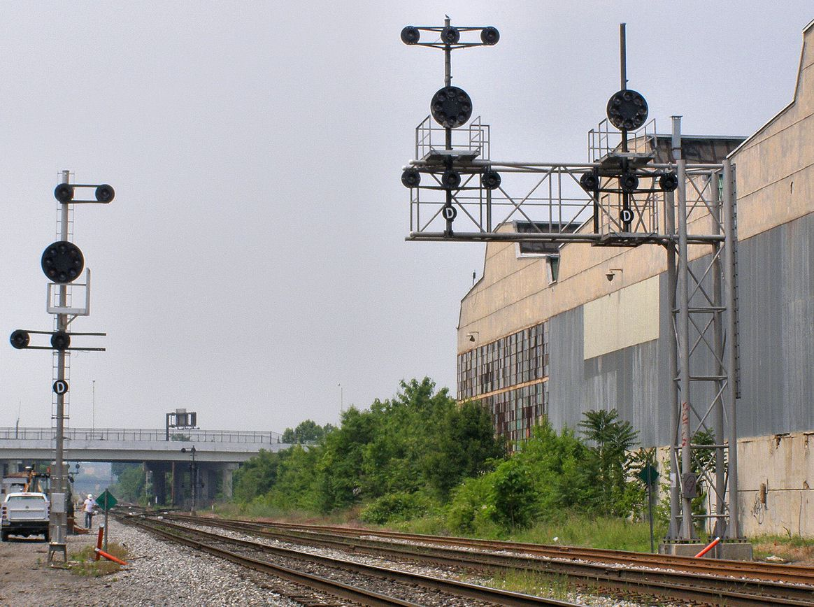 What is believed to be the only fully equipped B&O Color Position Light signal on the new cantilever mast at CARROLL interlocking at Baltimore, Maryland. Signal was upgraded due to bi-directional signaling project south of here in 2007. Replaces last known full CPL signal in Glennwood, PA, which was removed in 2003.